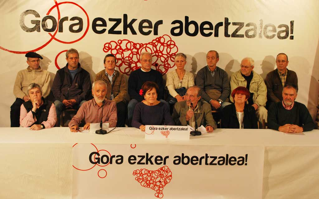 Founders of Herri Batasuna, 33 years after, in Altsasu, Navarre.